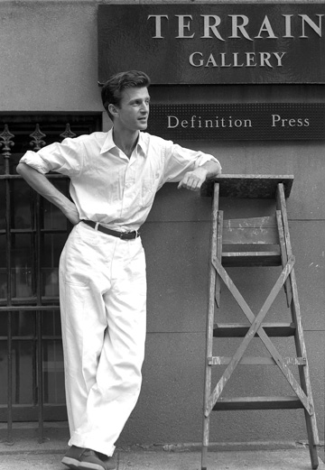 Terrain Gallery, 20 West 16th St, NYC